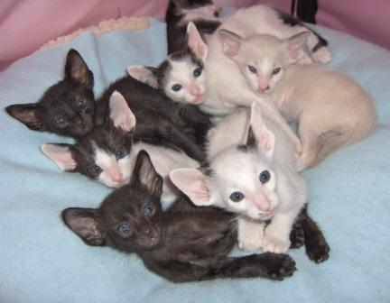 litter of oriental shorthairs